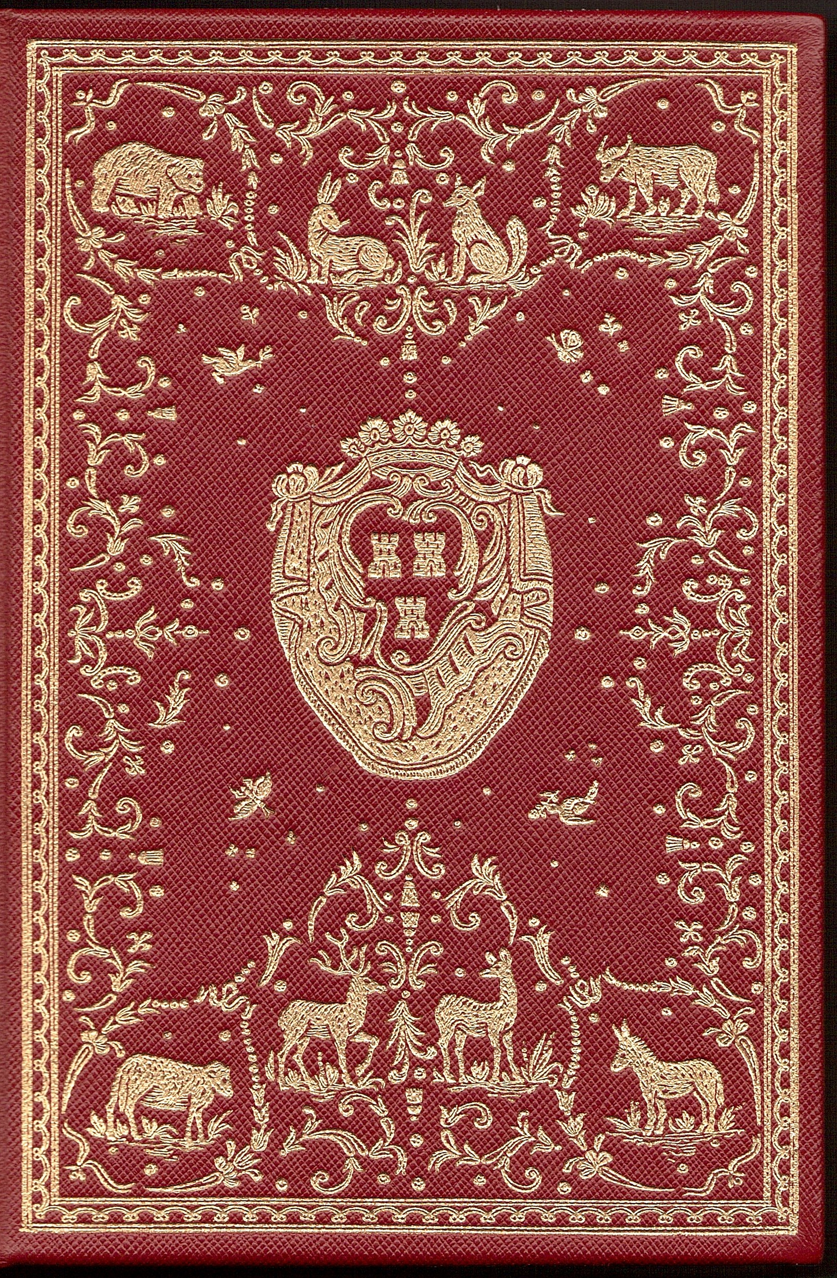 Scan of the bookbinding of a volume of the La Fontaine's Fables, with the CoA of Madame de Pompadour. Editing of 1755